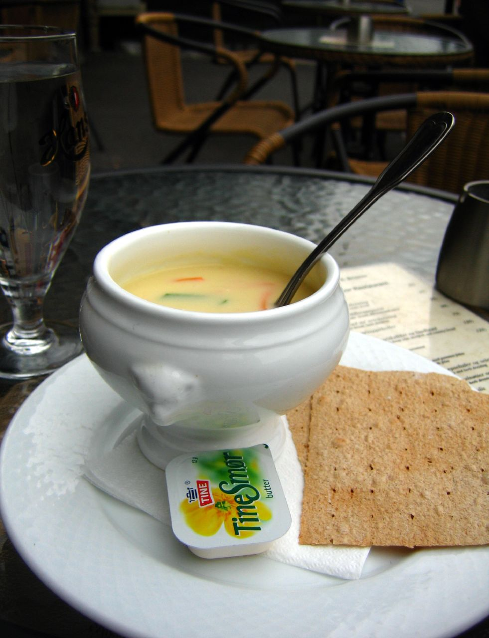 Bergensk fiskesuppe med supperboller (Bergen fish soup) at Bryggeloftet & Stuene, Bryggen, Bergen, Bergen fish soup as served at Bryggeloftet & Stuene in Bergen. Bergen (Hordaland)